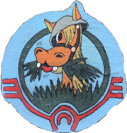 Emblem of 16th Bombardment Wing